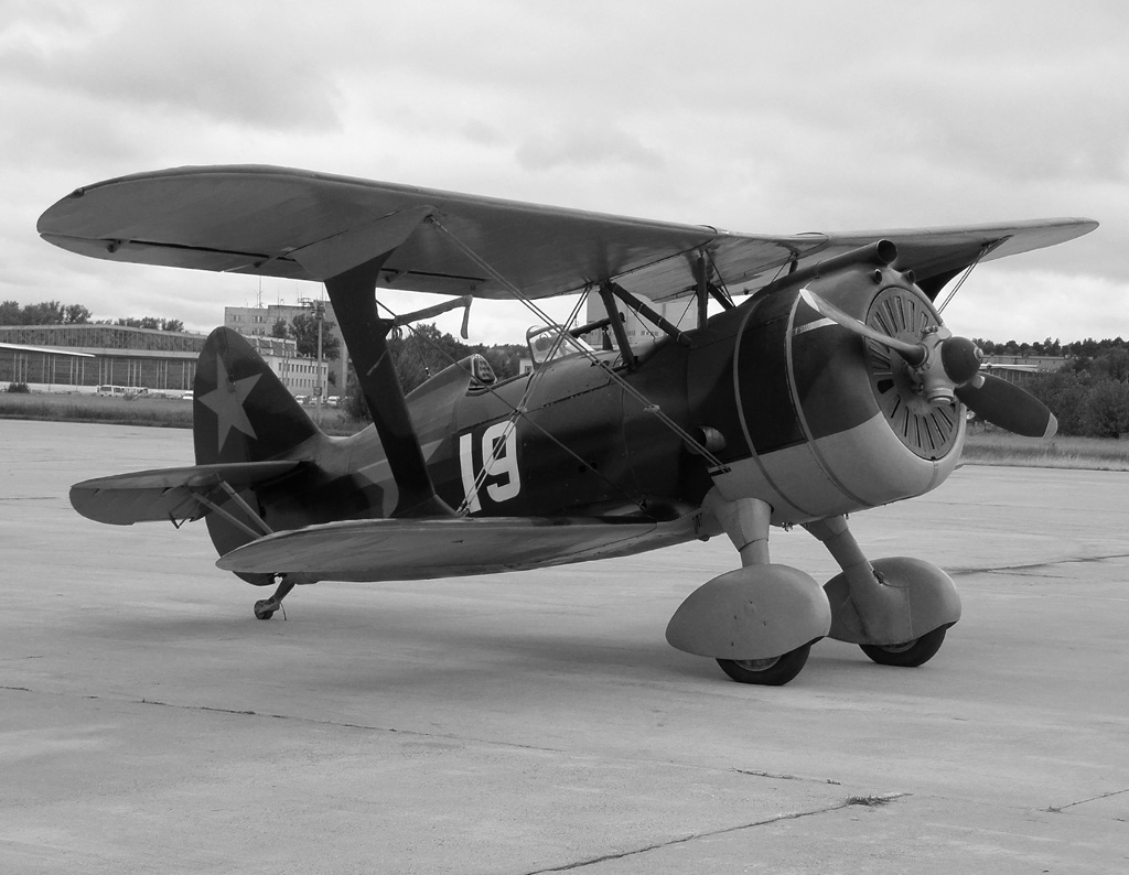 The Polikarpov I-15 (Russian: И-15) was a Soviet biplane fighter aircraft of the 1930s. Nicknamed Chaika (Russian: И-15 Чайка, "Lapwing") because of its gulled upper wings, it was operated in large numbers by the Soviet Air Force, and together with the Polikarpov I-16 monoplane, was one of the standard fighters of the Spanish Republicans during the Spanish Civil War, where it was called Chato (snub-nose) in the Republican Air Force, or "Curtiss" (because its resemblance to Curtiss F9C Sparrowhawk) in the Nationalist Air Force. The I-15 was used in combat extensively by the Republicans in the Spanish Civil War and proved to be one of the best fighter biplanes of its time. The I-15bis also saw a great amount of action in Manchuria and Battle of Khalkhin Gol in the various border clashes between the Russians and the Japanese. In 1937, I-15s in the hands of the Chinese Nationalist Air Force fought against invading Japanese, where the tough biplane began to meet its match in some of the newer, faster Japanese monoplanes. More than 1,000 I-15bis fighters were still in use during the German invasion when the biplane was employed in the ground attack role. By late 1942, all I-15s and I-15bis' were relegated to second line duties. General characteristics * Crew: 1 * Length: 6.10 m (20 ft) * Wingspan: 9.75 m (32 ft) * Height: 2.20 m (7 ft 3 in) * Wing area: 21.9 m² (236 ft²) * Empty weight: 1,012 kg (2,231 lb) * Loaded weight: 1,415 kg (3,120 lb) * Powerplant: 1× M-22 radial engine, 353 kW (473 hp) Performance * Maximum speed: 350 km/h (220 mph) * Range: 500 km (310 mi) * Service ceiling: 7,250 m (23,800 ft) * Rate of climb: 7.6 m/s (1,490 ft/min) * Wing loading: 65 kg/m² (13 lb/ft²) * Power/mass: 0.25 kW/kg (0.15 hp/lb) Armament * 4 × fixed forward-firing 7.62 mm PV-1 machine guns or * 2 × fixed forward-firing 12.7 mm BS machine guns * Up to 100 kg (220 lb) of bombs or * 6 × RS-82 rockets